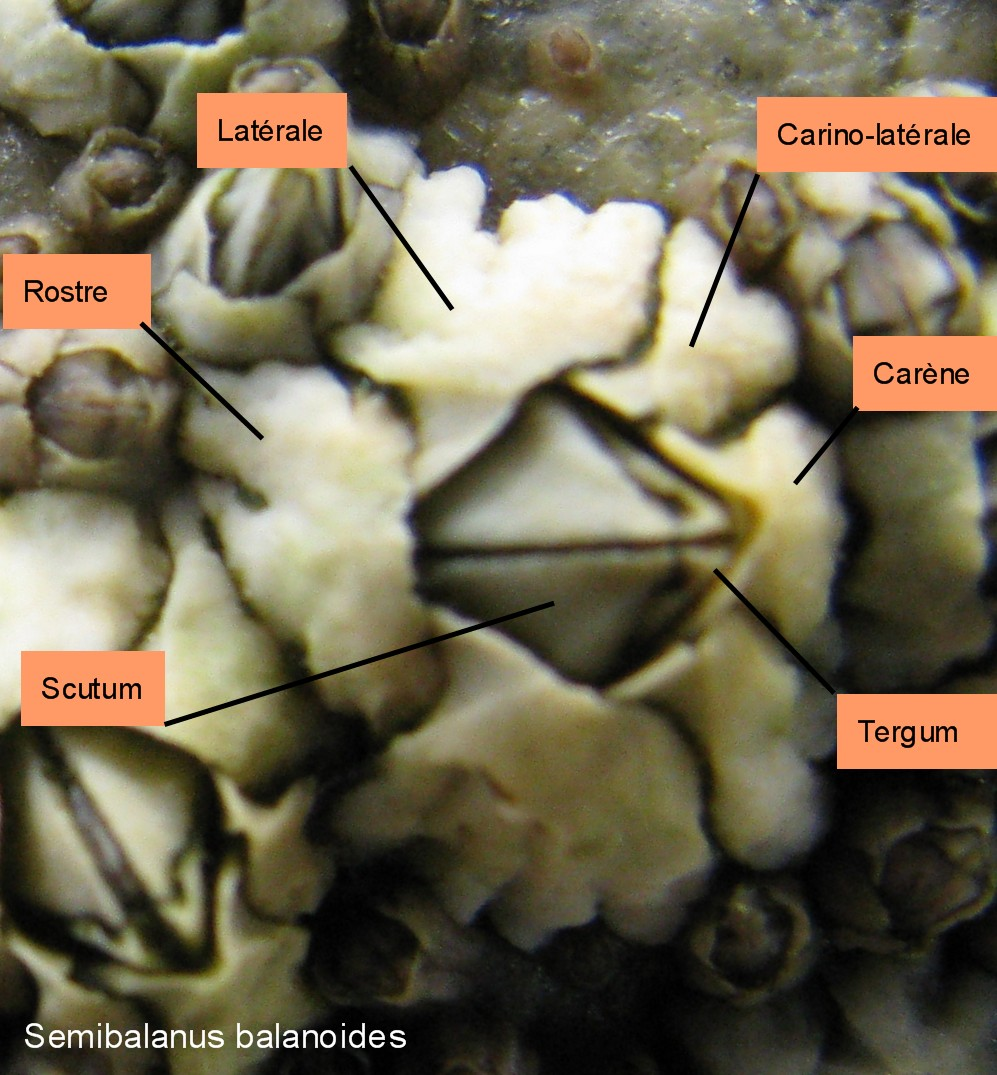 Semibalanus balnoides, plates names.